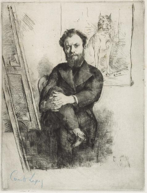 A dry-point etching of Vicomte Ludovic-Napoléon Lepic by Marcellin-Gilbert Desboutin, c. 1876, in the National Gallery of Canada